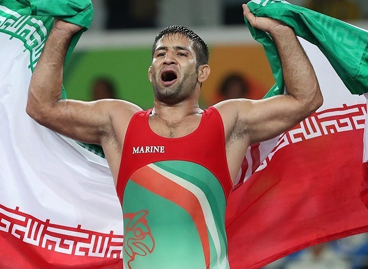 Saeid Abdevali